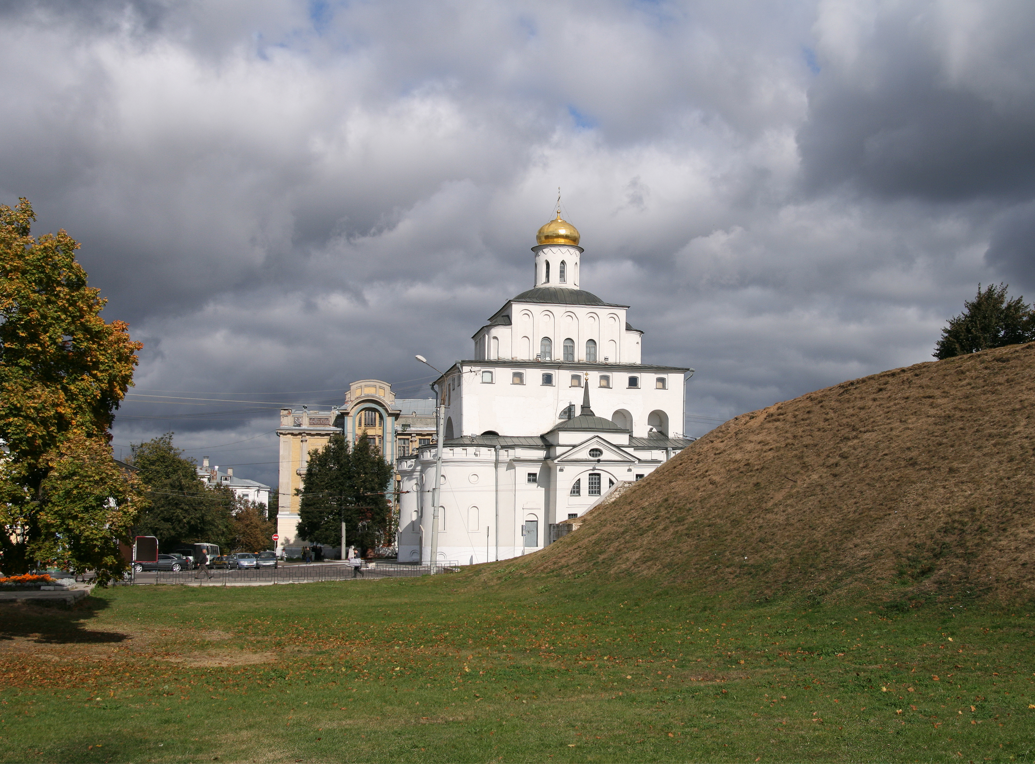 Golden Gate, XII, the end of the XVIII - the beginning of the XIX c, Vladimir